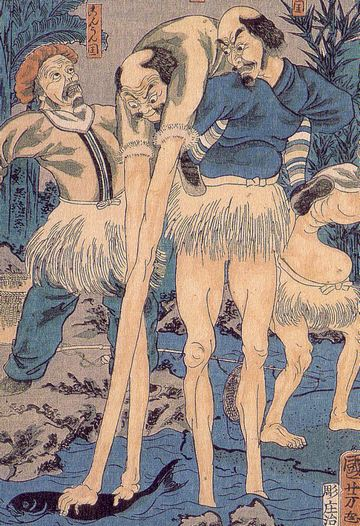 Ashinagatenaga (足長手長, a pair of characters, one with long legs and the other with long arms) from the Asakura-Okuyama-Iki-Ningyō (浅草奥山生人形)